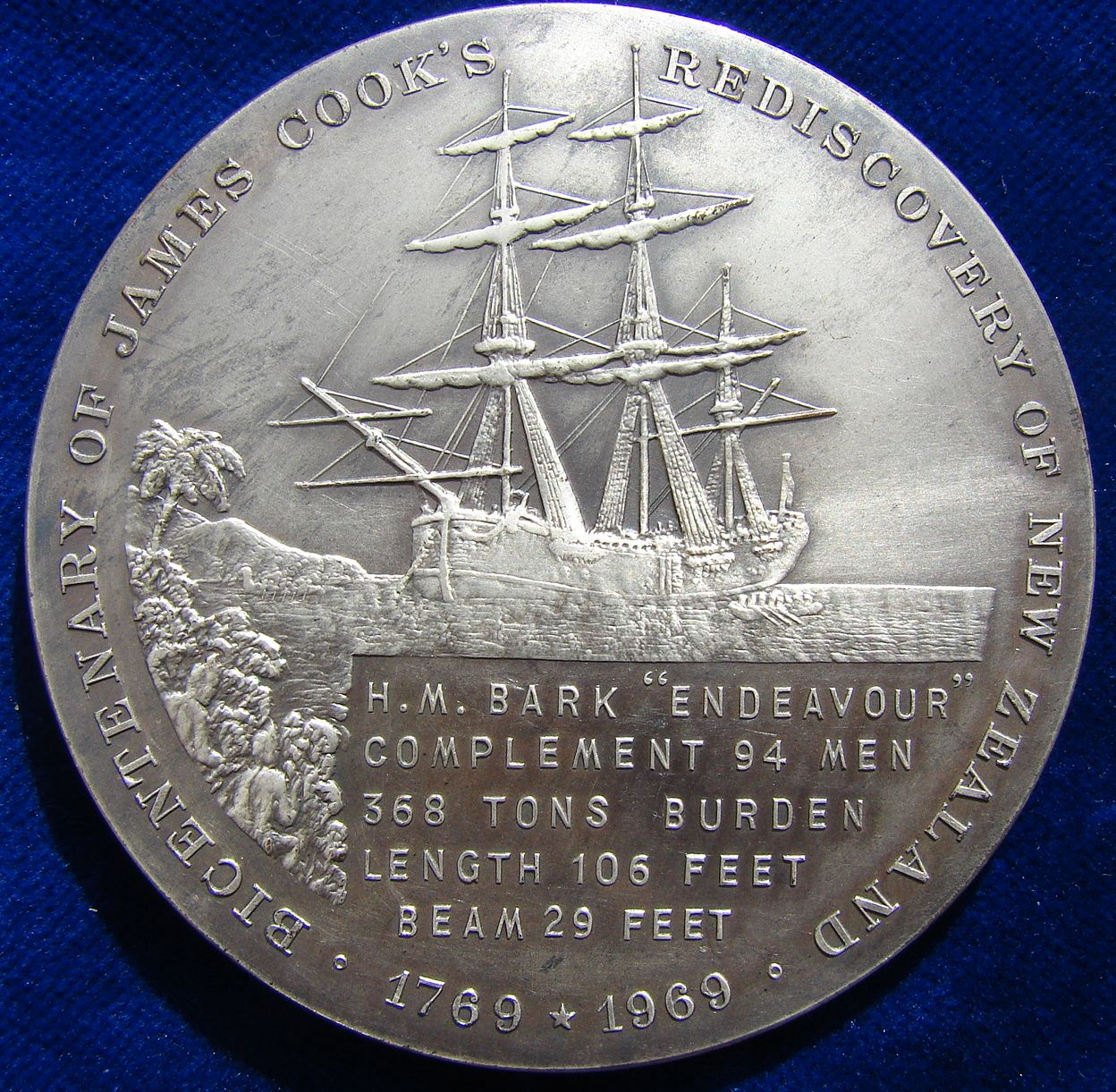 Sailing ship Endeavour r. anchored in harbour, below : "H.M. BARK ”ENDEAVOUR” COMPLEMENT 94 MEN 368 TONS BURDEN LENGTH 106 FEET BEAM 29 FEET", surrounded by : "· BICENTENARY OF JAMES COOK' S REDISCOVERY OF NEW ZEALAND · 1769 · 1969 ·" In the foreground you see a rowing boat with crew, and in the left background a Maori Waka observing the situation.